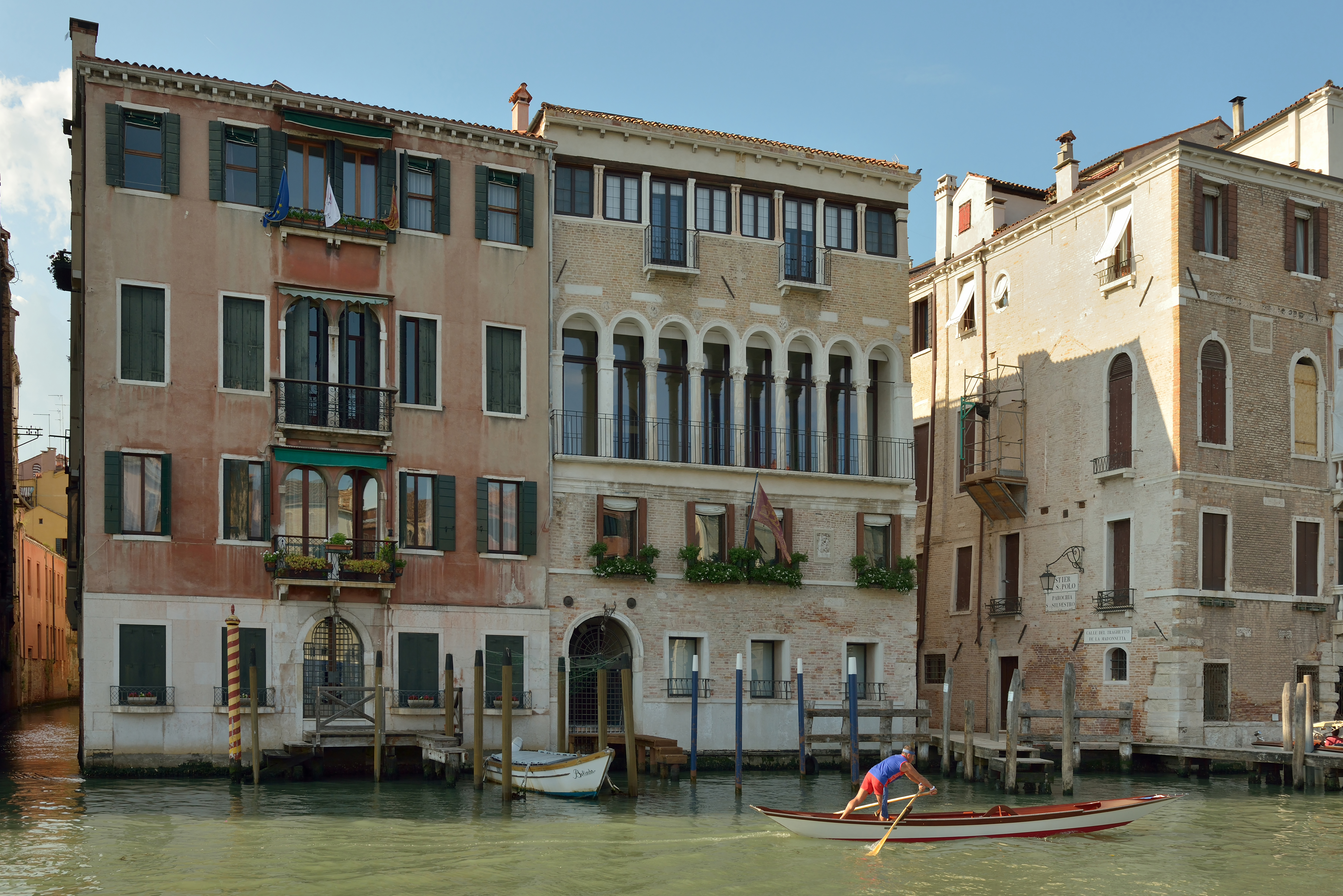 The Palazzo Donà della Madoneta and Casa Sicher , view from the Canal Grande in Venice